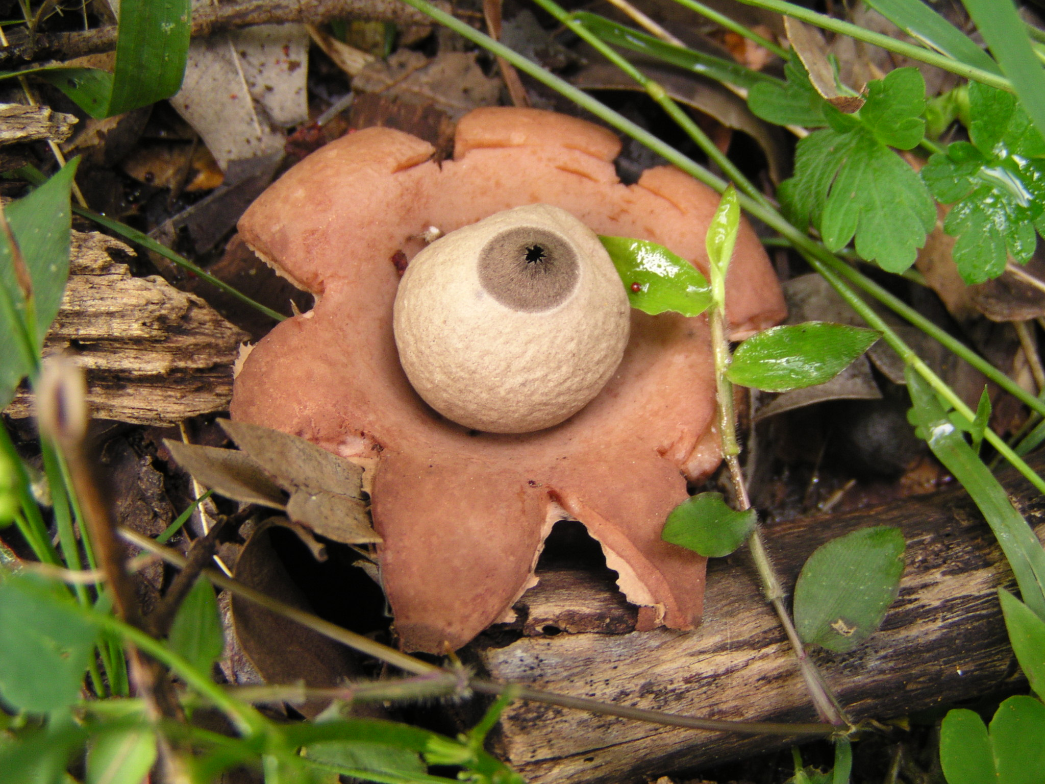 Earthstar fungus (Geastrum saccatum) found in Badangi Reserve, Wollstonecraft. The plant growing over the right hand edge of the fungus is Commelina cyanea which is common in the area. The species is either G. triplex (also known as G. indicum in Australia) or G. saccatum. The lack of a saucer and the size suggests saccatum - triplex is usually larger, and often has a saucer between the ball and the arms.